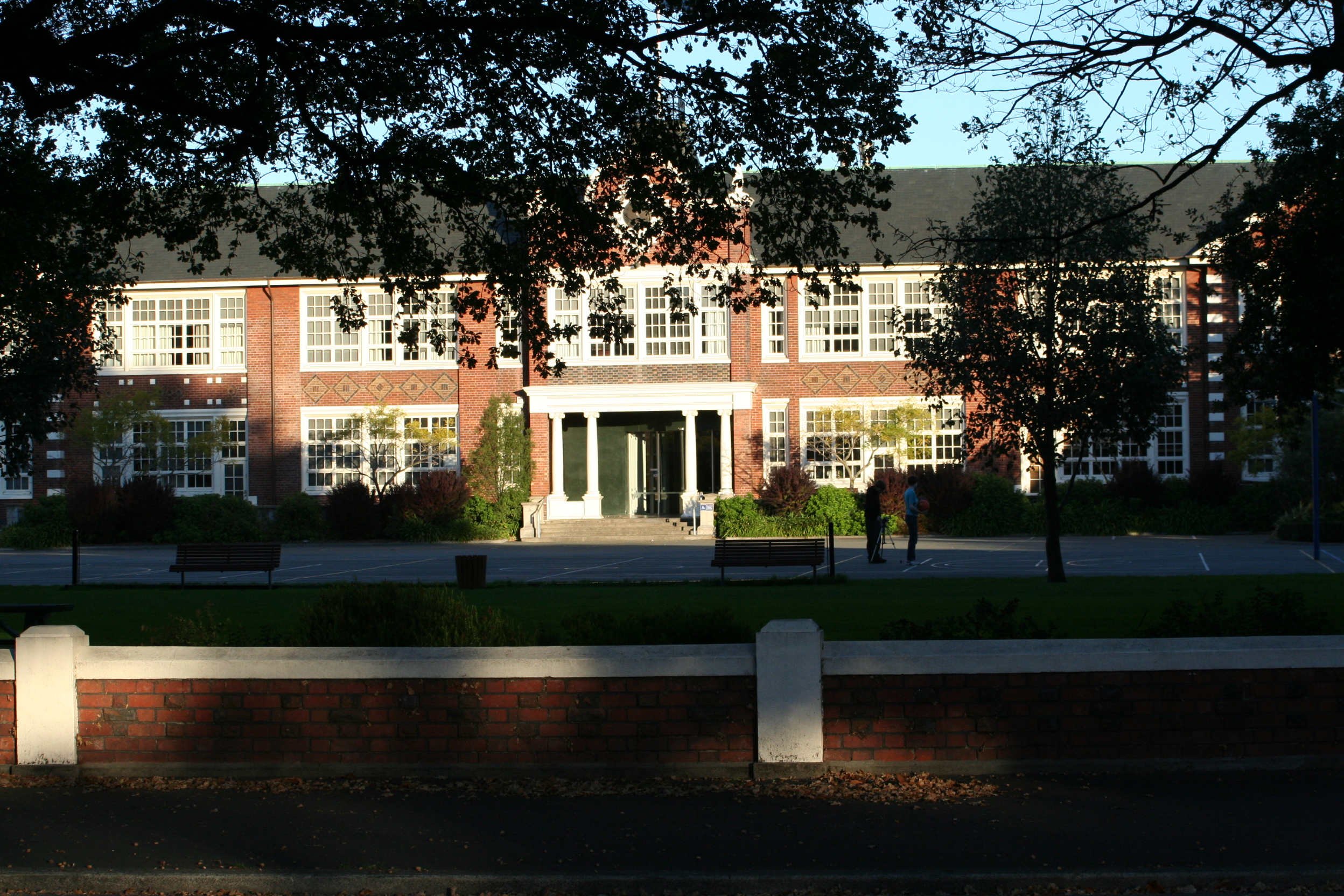 The Hagley Community College in 2008, viewed from Hagley Avenue.